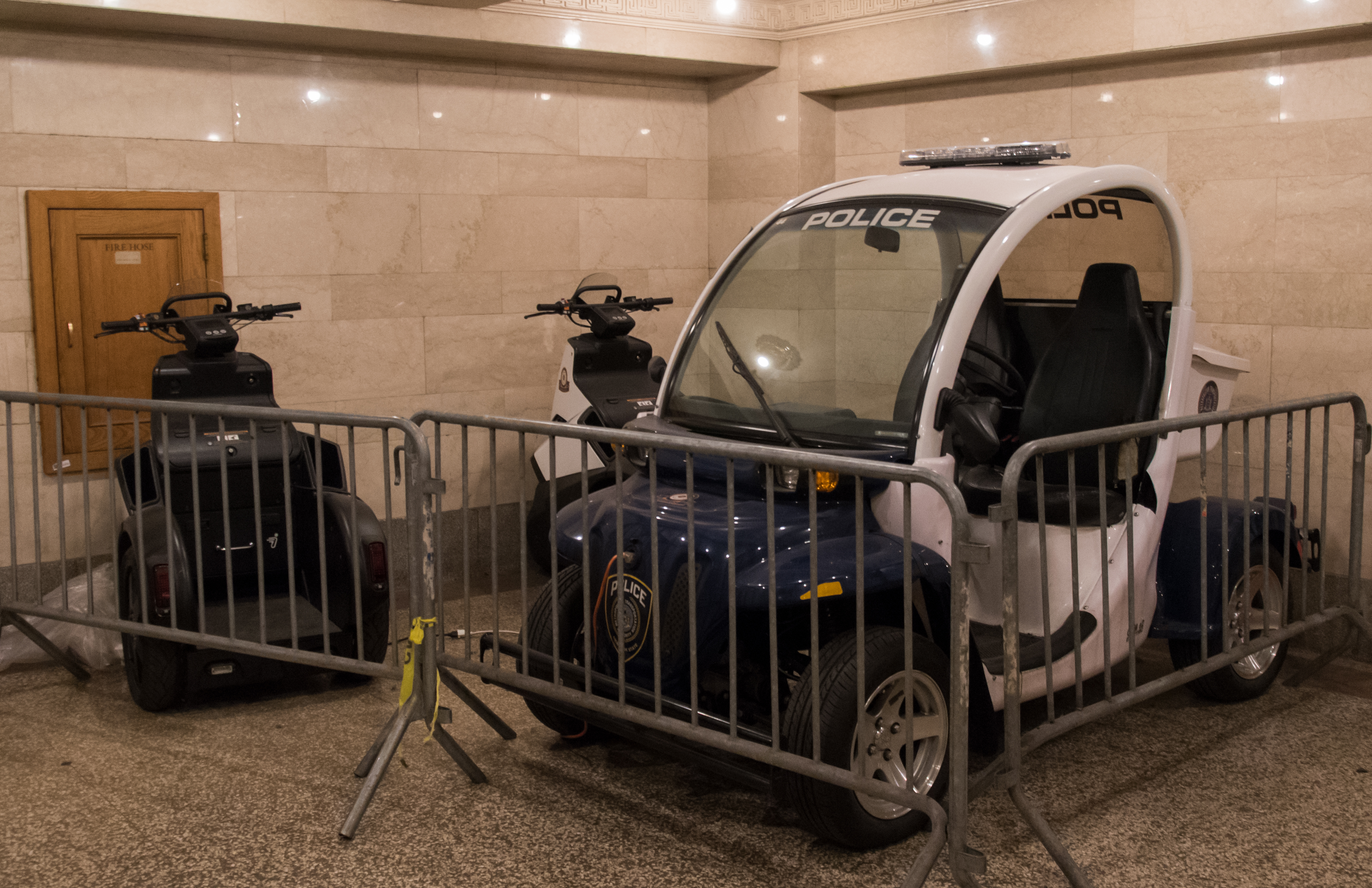 Vehicles owned by the MTA Police in Grand Central's dining concourse, near the stairs to the Graybar Passage. Taken as part of a scheduled photoshoot with three other Wikipedians on January 7, 2019.